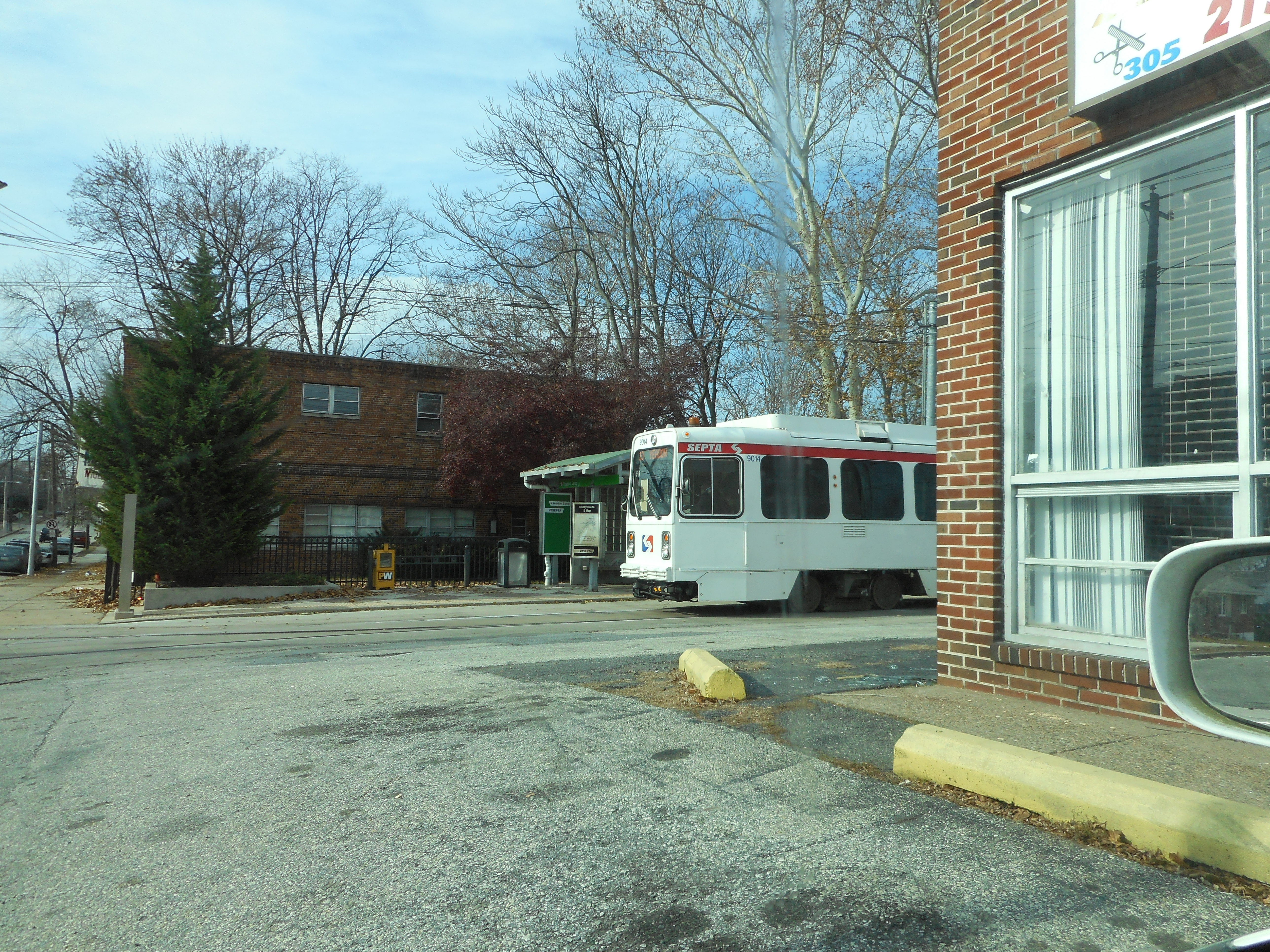 A SEPTA Route 13 Kawasaki LRV Series 100 waits at a trolley shelter at the Yeadon Loop in Yeadon, Pennsylvania.